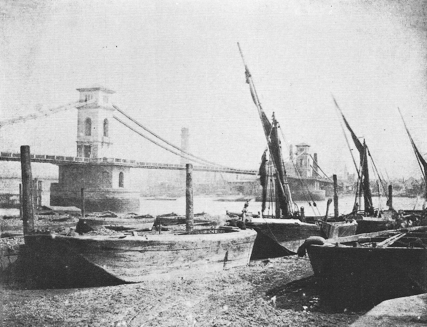 This a Calotype print from 1845, it shows Brunel's Hungerford Bridge from what became Victoria Embankment. The bridge was built in 1845 as a footbridge from Hungerford Market on the north bank to a steamer pier on the south bank. In 1859 the bridge was purchased by the South Eastern Railway Company who rebuilt it as a railway bridge. The chains from the bridge were reused by Brunel for his Clifton suspension bridge in Bristol.